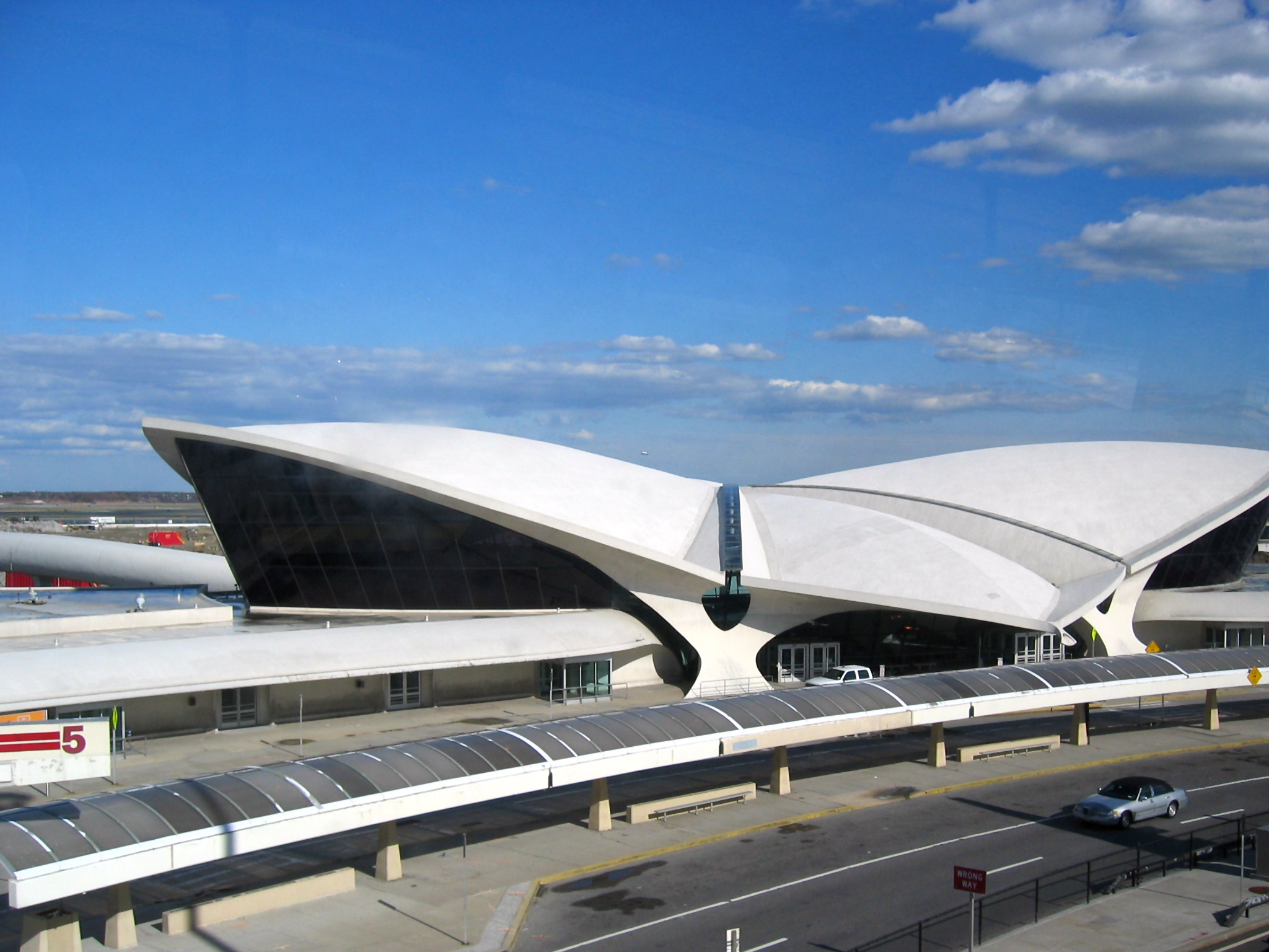 The TWA Flight Center building at John F. Kennedy International Airport, NYC. An Expressionist style concrete shell structure by Eero Saarinen. It opened in 1962 as a standalone terminal for TWA, and in 2008 was connected to JFK Terminal 5.